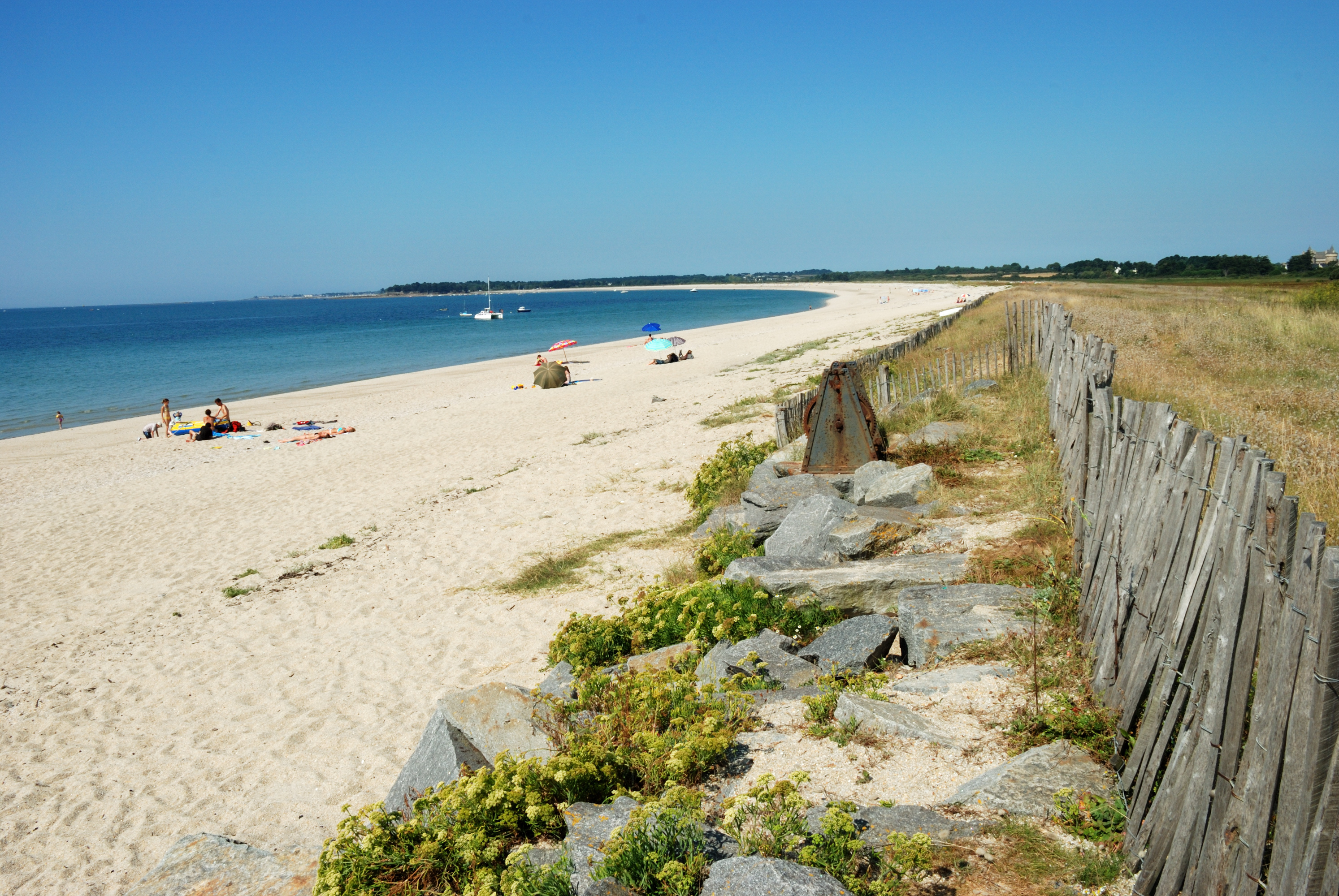 Beach of Penvins(commune of Sarzeau, Morbihan, France)